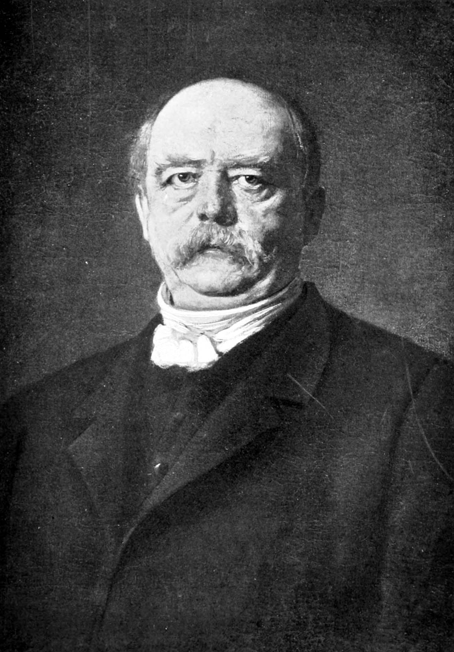 Clipped black and white reproduction of a portrait of German chancellor Otto von Bismarck